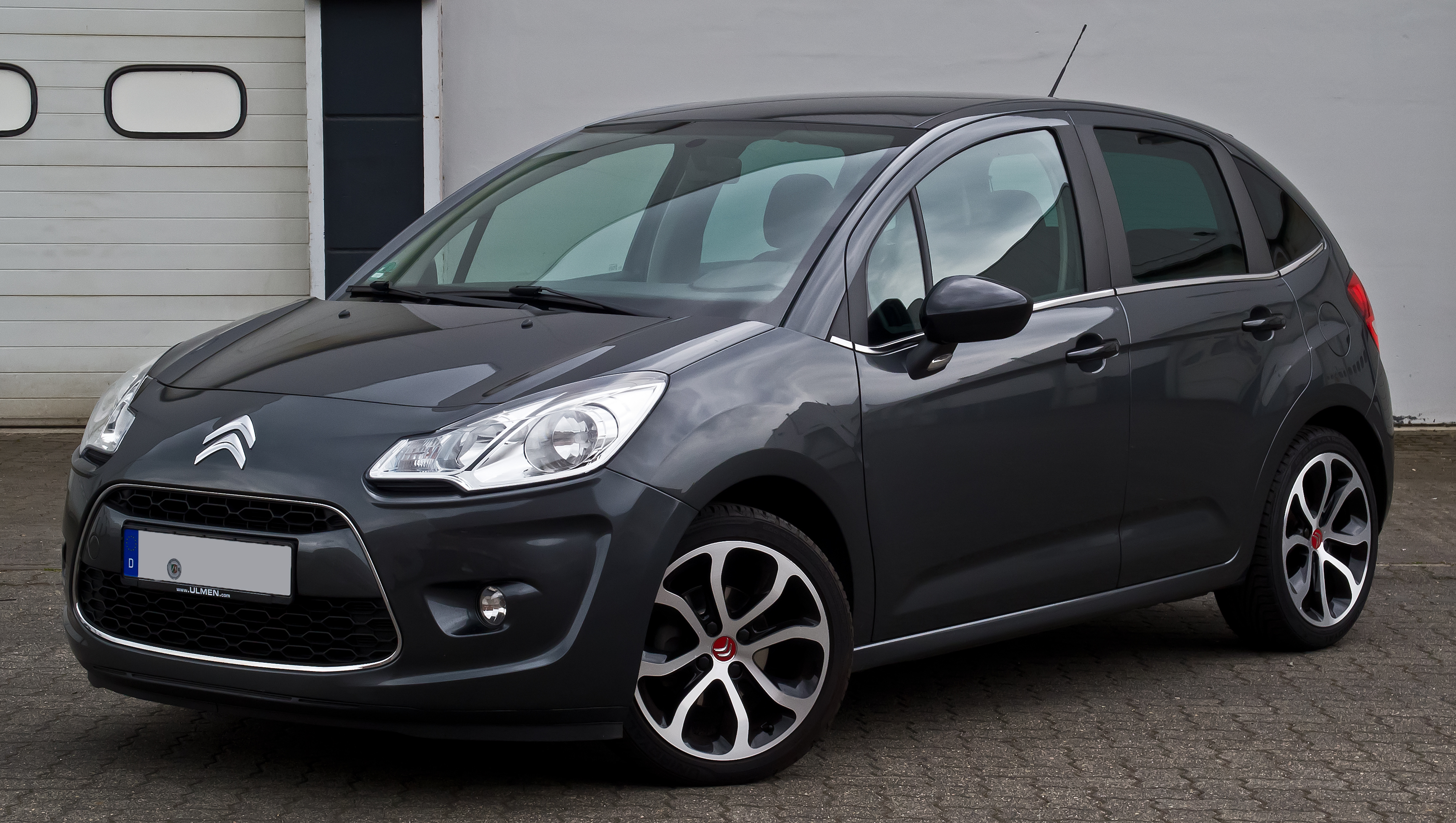 Citroën C3 e-HDi 110 Airdream Red Block (II)